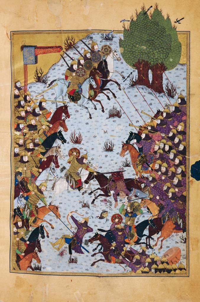 The opposing armies are: those of Iran led by Key-Khosrow; and those of Turan, under the command of Afrasiyab. From the “Bayasanghori Shâhnâmeh” — made in 1430 for Prince Bayasanghor (1399-1433), the grandson of the legendary Central Asian leader Timur (1336-1405).